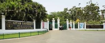 Over the focus of the state government then we talk about the Indian constitution of GITAM university